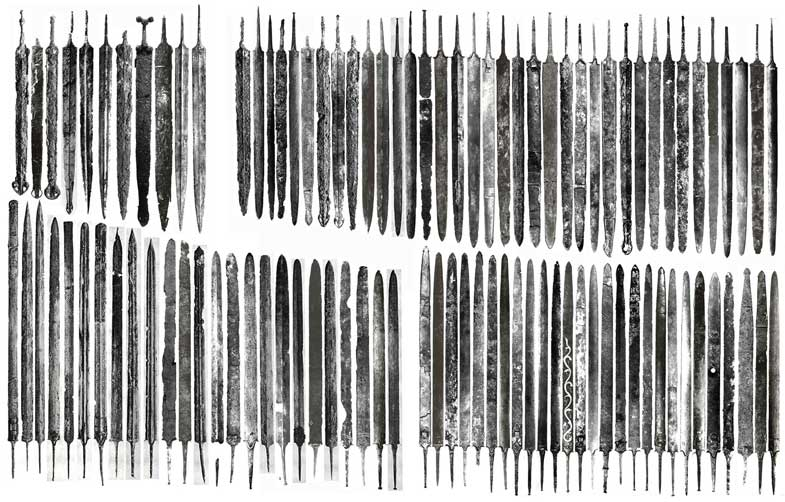 Compilation of Celtic swords from La Tène archeological site. The picture was obtained by the Author crossmatching different images from the book NAVARRO, José María : de (1972), The finds from the site of La Tène : Vol. 1: Scabbards and the swords found in them, Oxford University Press (ed. British Academy), ISBN 978-01-9725-909-2.